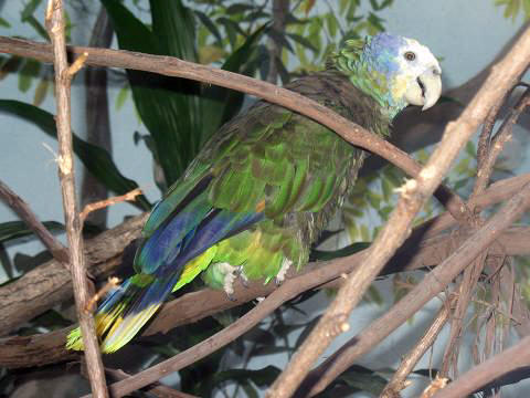 Description: St. Vincent Parrot - Source: own work - Location: Bronx Zoo, New York - Author: self, User:Stavenn